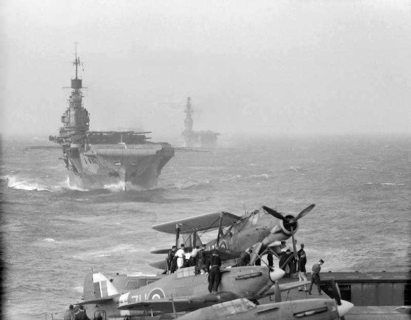 IWM caption : OPERATION PEDESTAL, AUGUST 1942. Preliminary movements: 3 - 10 August 1942: Photograph taken from the after end of HMS VICTORIOUS' flight deck showing HMS INDOMITABLE and HMS EAGLE. A Hawker Sea Hurricane and a Fairey Albacore are ranged on VICTORIOUS' flight deck.